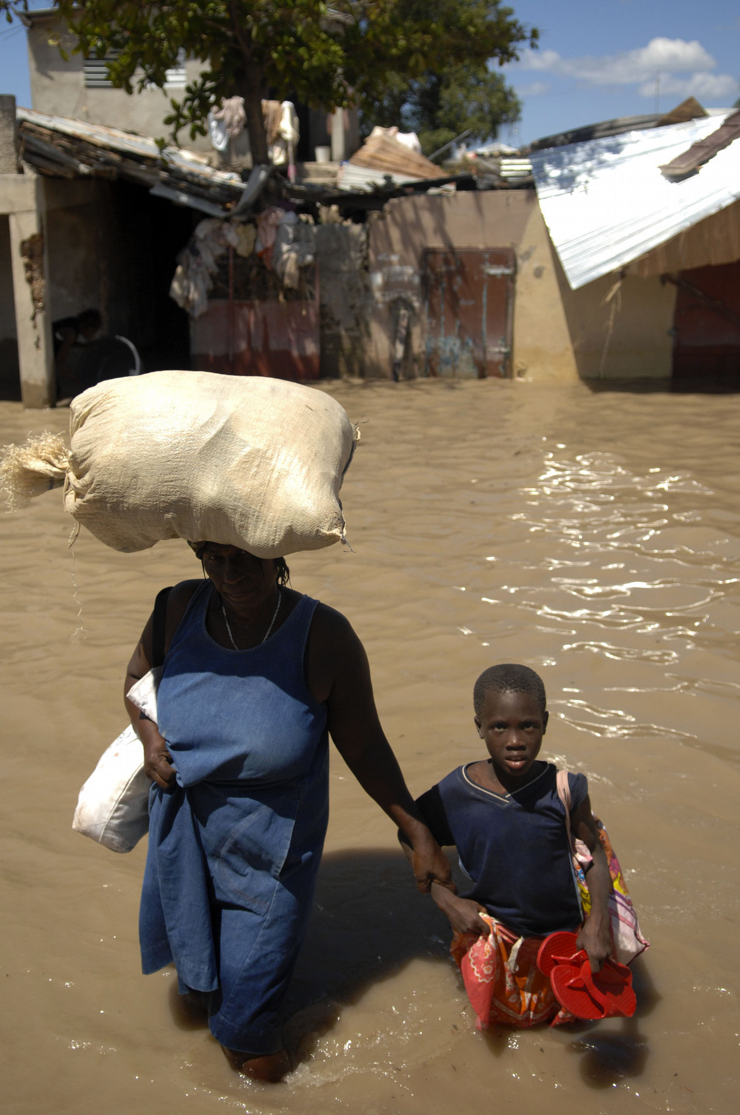 GONAIVES, Haiti (Sept. 15, 2008) A Haitian woman leads her child through the streets of Gonaives, an area of Haiti devastated by recent hurricanes. The amphibious assault ship USS Kearsarge (LHD 3) is airlifting food and supplies to flooded areas of Gonaives where roads are inaccessible. America's contributions to the relief efforts are being coordinated by the United States Agency for International Development (USAID) and its Office of U.S. Foreign Disaster Assistance. Kearsarge has been diverted from the scheduled Continuing Promise 2008 humanitarian assistance deployment in the western Caribbean to conduct hurricane relief operations in Haiti. (U.S. Navy photo by Mass Communication Specialist Seaman Apprentice Ernest Scott/Released)